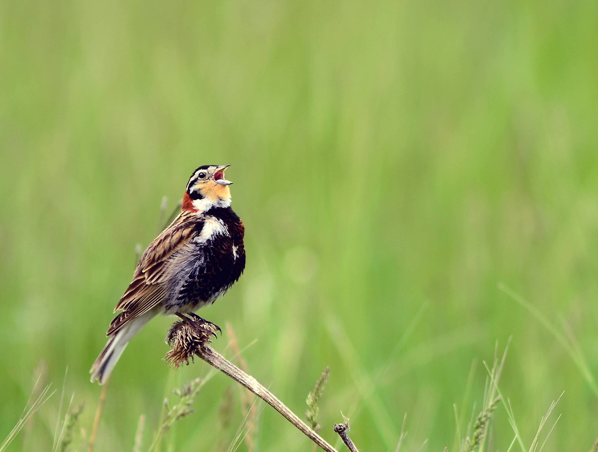 Credit: Rick Bohn